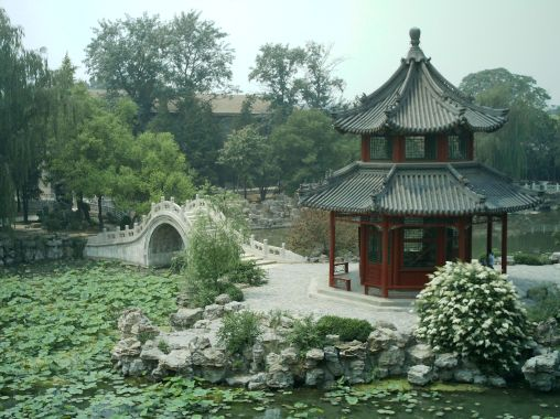 lotus garden in Baoding, China